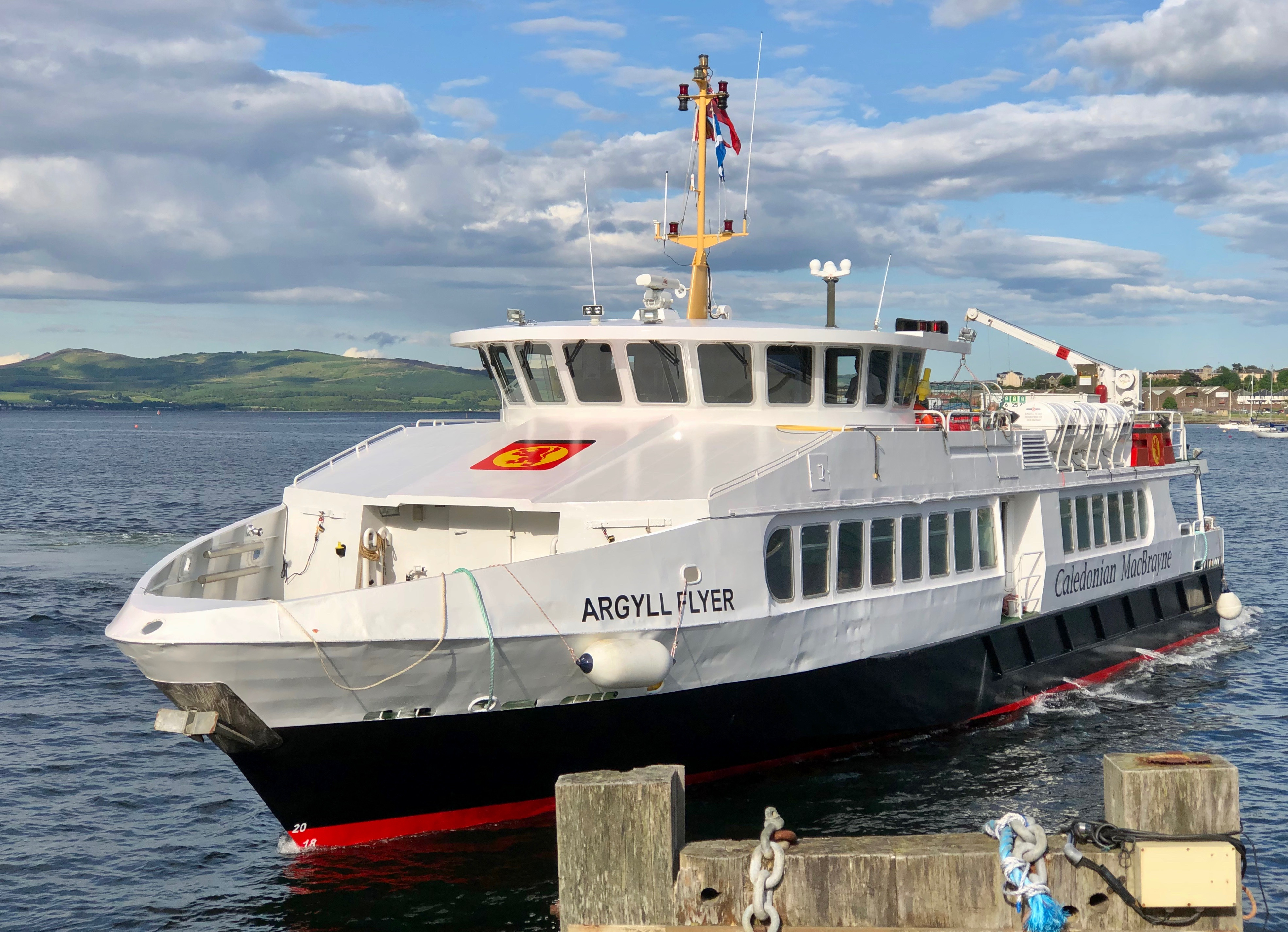 MV Argyll Flyer arriving at Gourock pierhead from Dunoon, showing its Caledonian MacBrayne livery